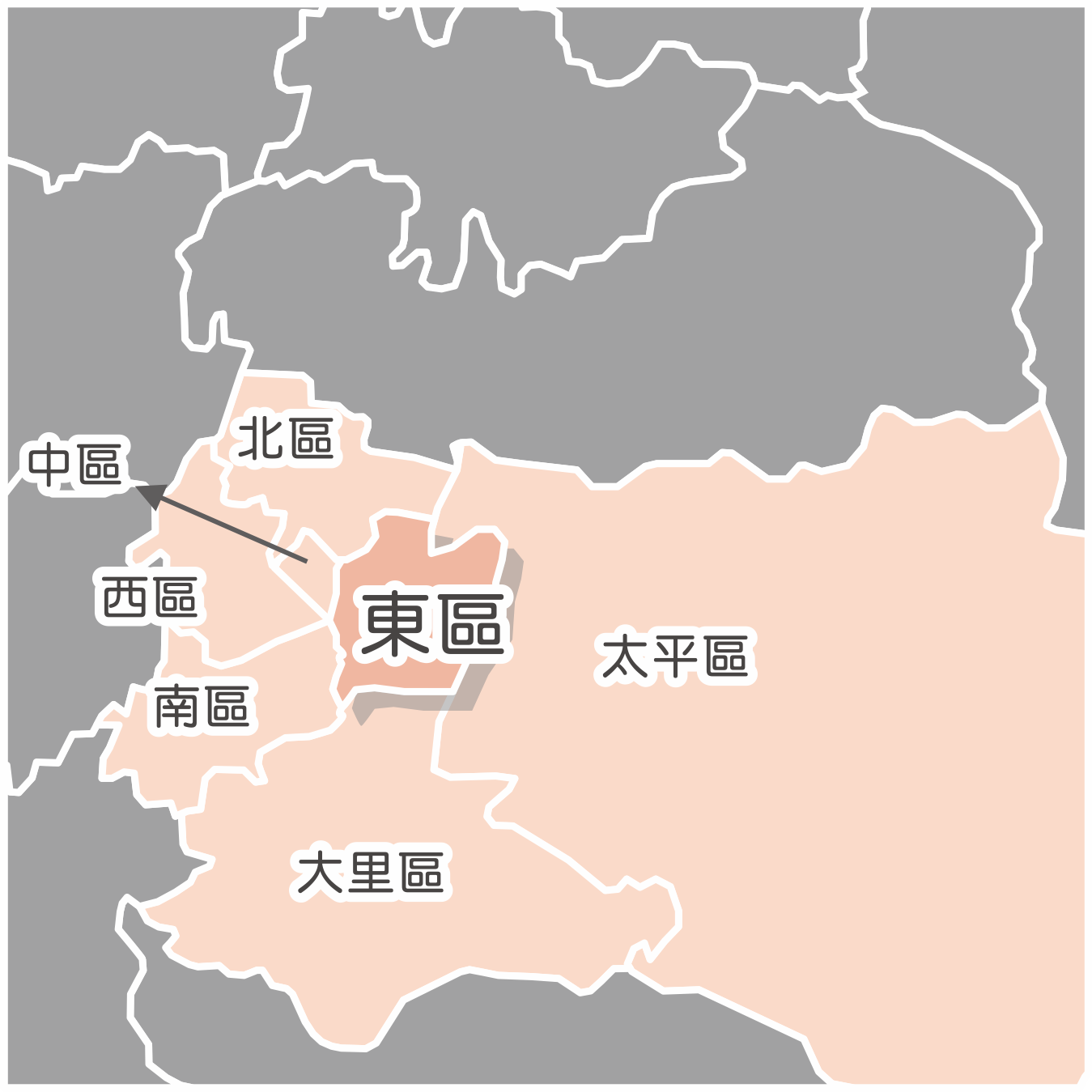 Dong District中文（台灣）: 臺中市東區。